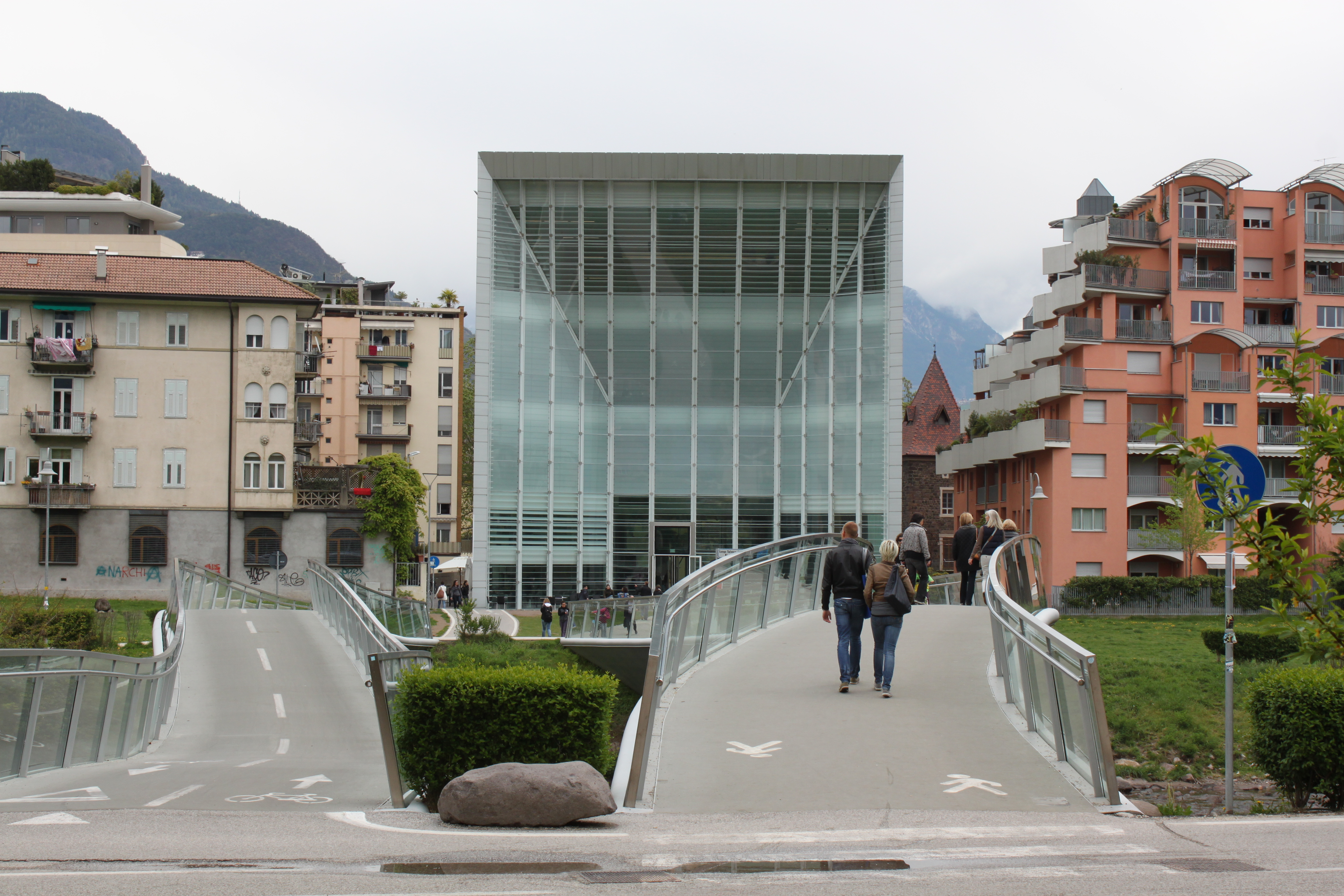 Museum of Modern Art Bozen Bolzano South Tyrol (west view) - Museion